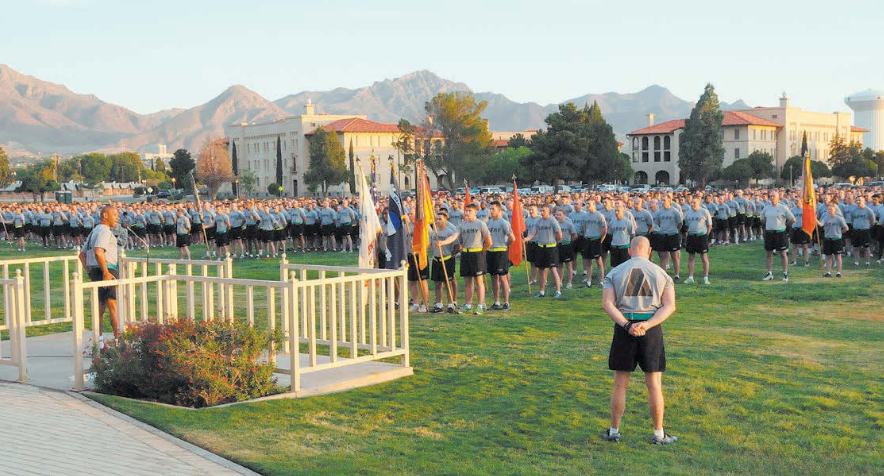 Commanding General Dana J.H. Pittard addresses Team Bliss, all dressed in Army physical fitness uniform, before a Post Run at Fort Bliss parade field adjacent to the building 500 area. 14 May 2013. US Army photo, Fort Bliss. (Public domain) For use at Uniforms of the United States Army#Physical training uniform Other information: Fort Bliss Monitor, published every Thursday (16 May 2013), was succeeded by Fort Bliss Bugle, by direction of the new CG, and is currently archived under the Bugle's URL. The Post Run which was pictured occurred on Tuesday, May 14, 2013.